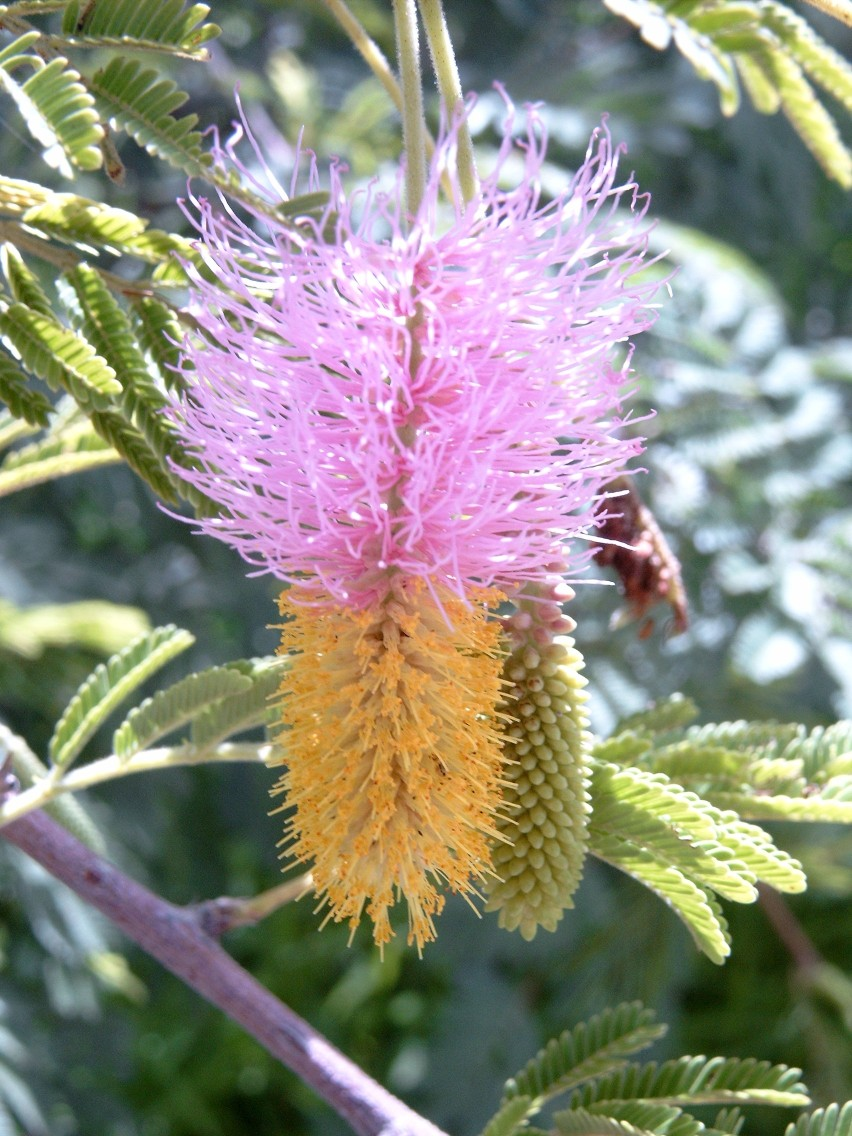 Flower of Dichrostachys cinerea. Picture taken south of Fada N'Gourma, Burkina Faso.